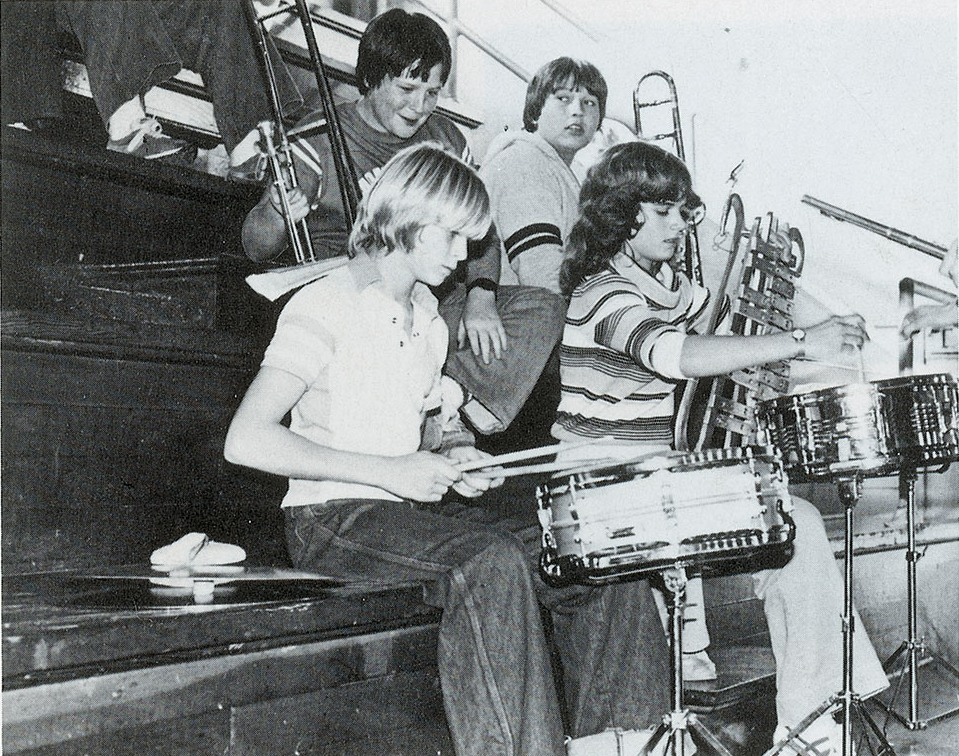 Kurt Cobain playing drums at an assembly at Montesano High School, Montesano, Washington, US.